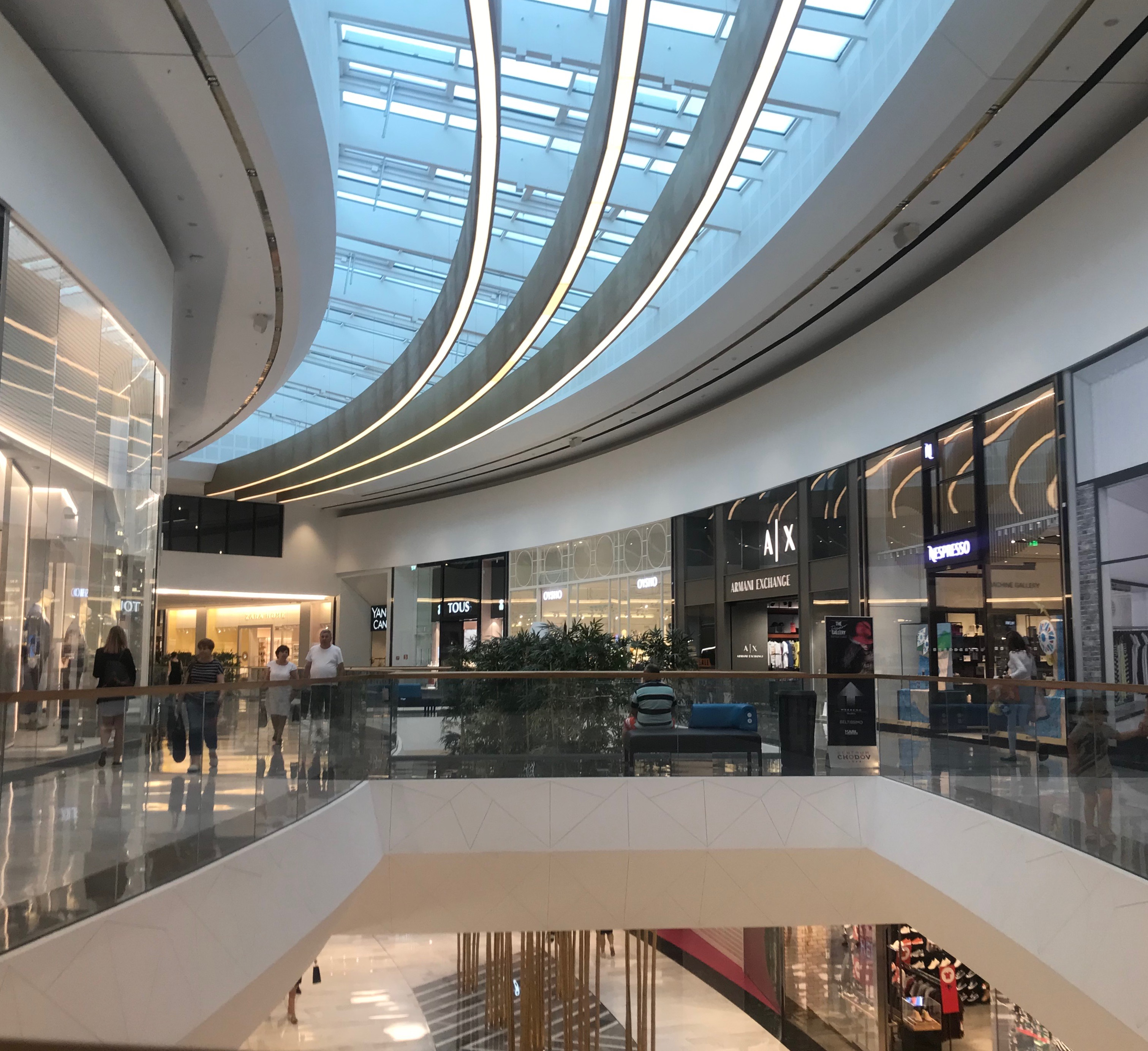 New part of the Centrum Chodov opened in 2017